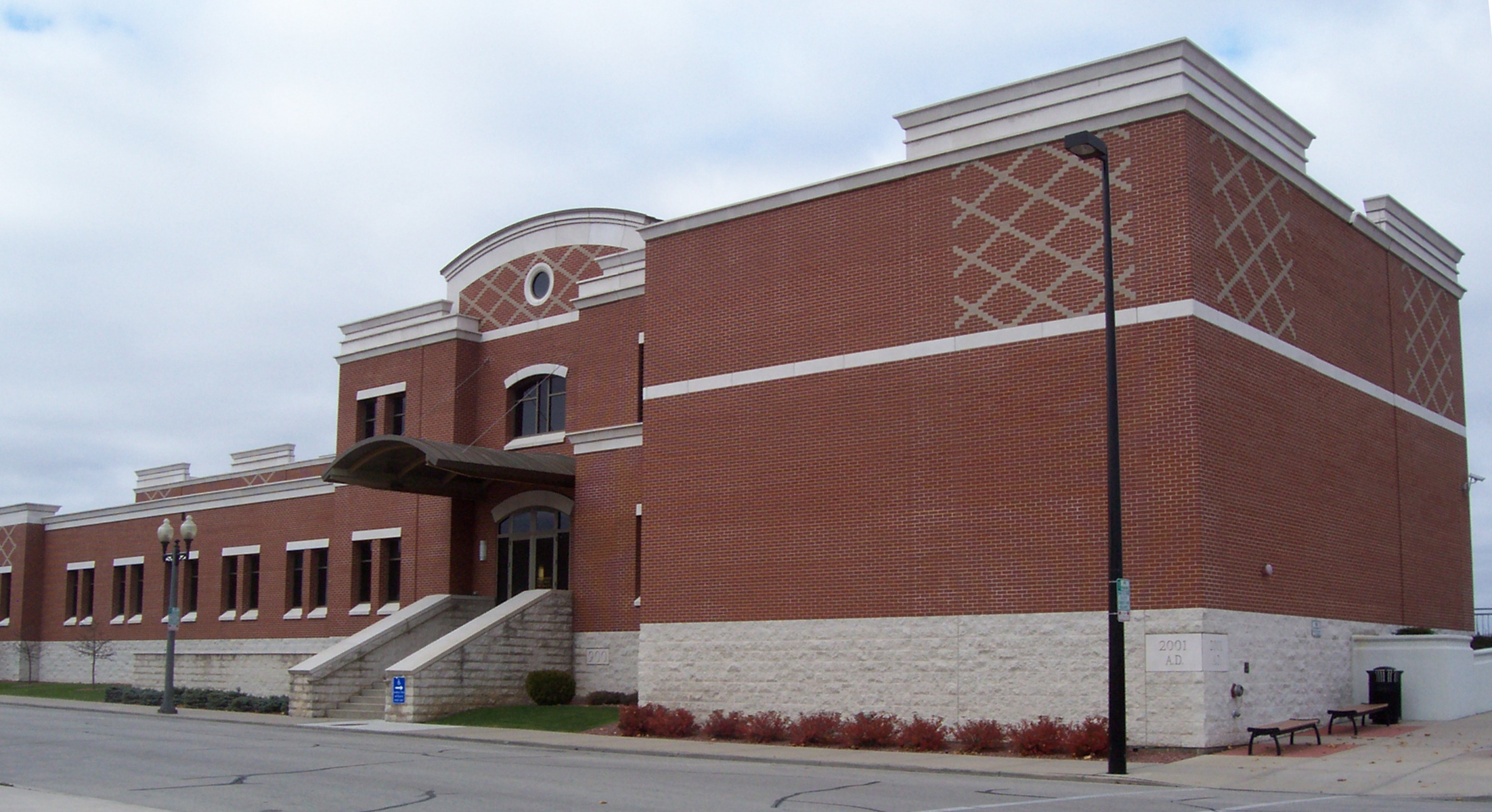 Looking northwest at the city hall for Manitowoc, Wisconsin, built in 2001.